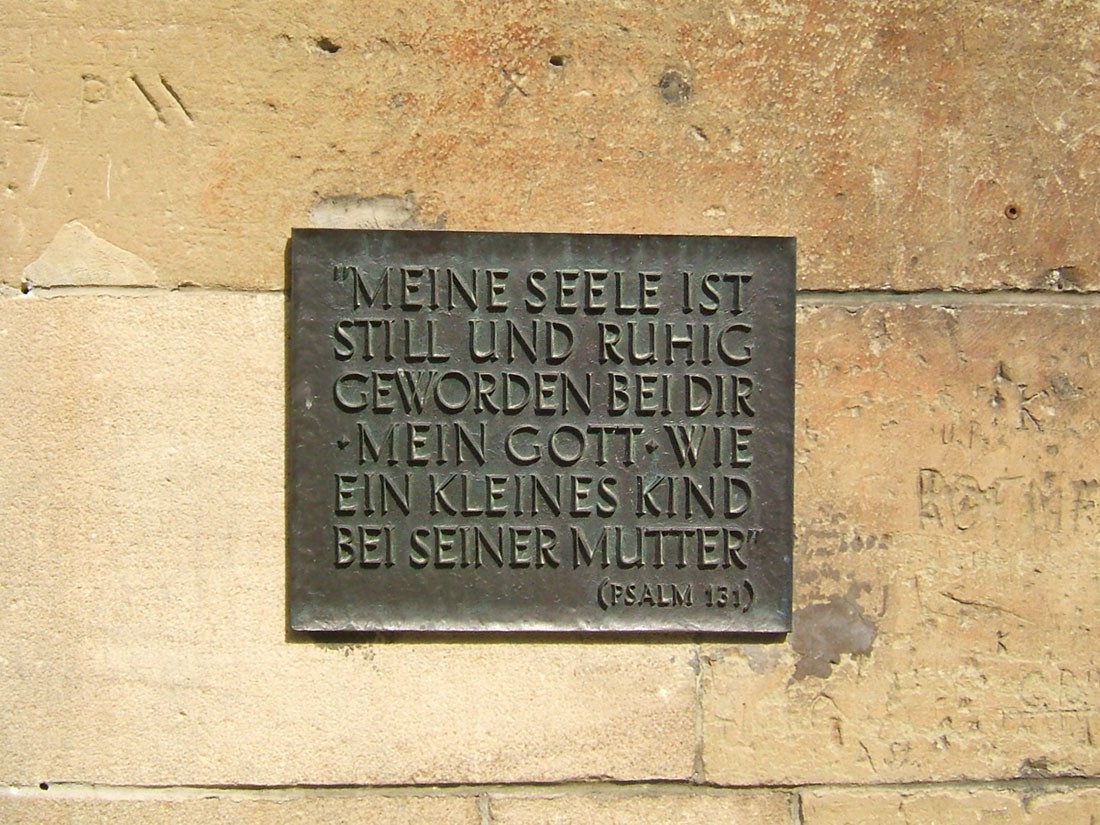 sculpture in Schorndorf, Germany